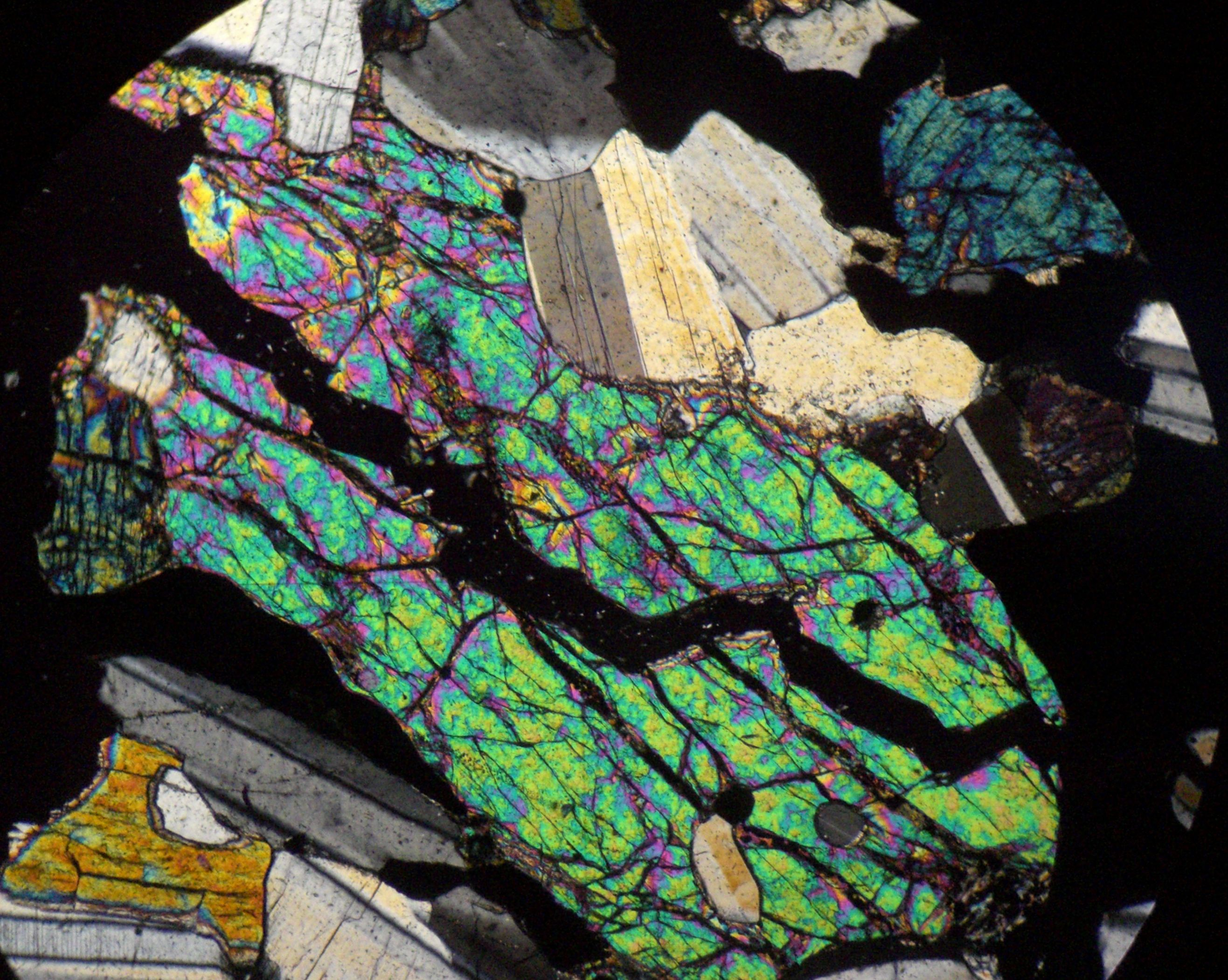 Igneous rock gabbro with detail of one grain of olivine. Photomicrograph with crossed polars.